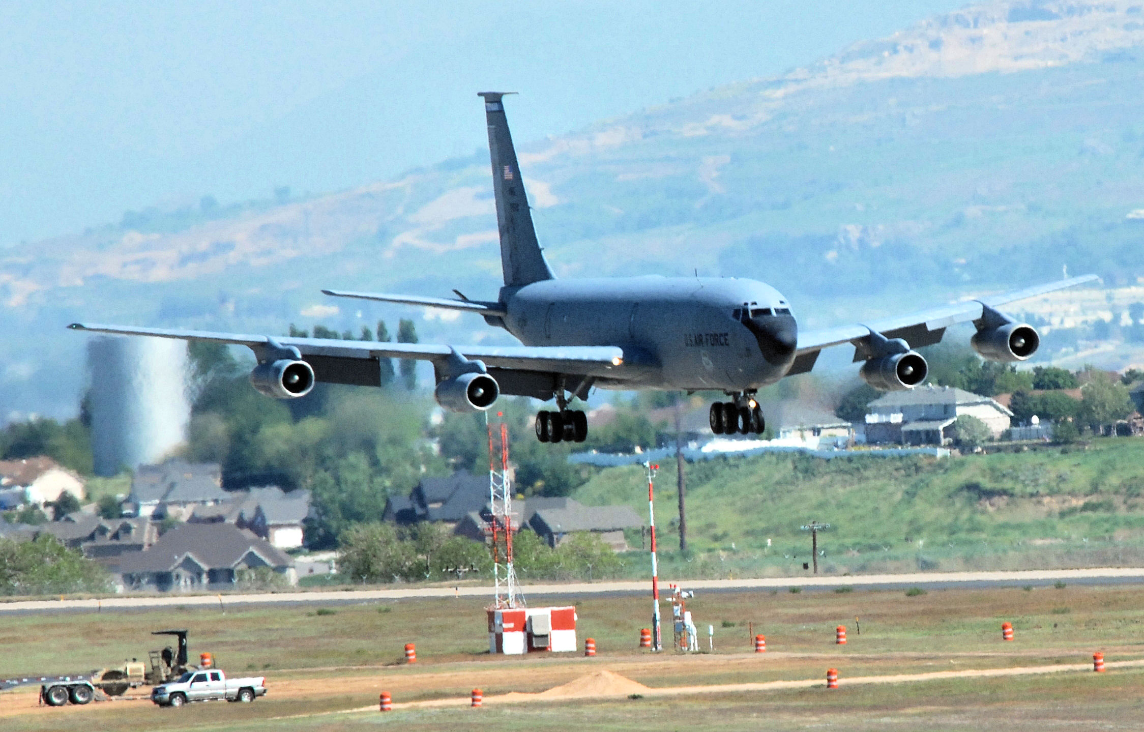 151st Air Refueling Wing - Boeing KC-135E-BN Stratotanker 57-1510 with 151 ARW Utah ANG 'Never Forget' since Aug 1978. Went to display at Hill Aerospace Museum, Hill AFB, UT in 2009.